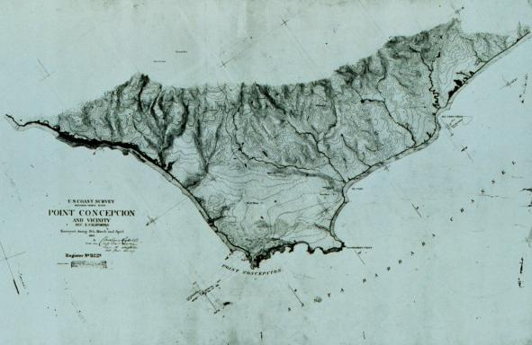 Map of Point Conception — a major headland on the Southern California Coast. Located in Santa Barbara County, California. Surveyed by Cleveland S. Rockwell; United States Coastal Survey, Topographic Survey T-1122a, 1869